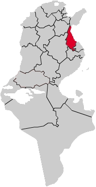 Map of Tunisia with highlighted Sousse Governorate